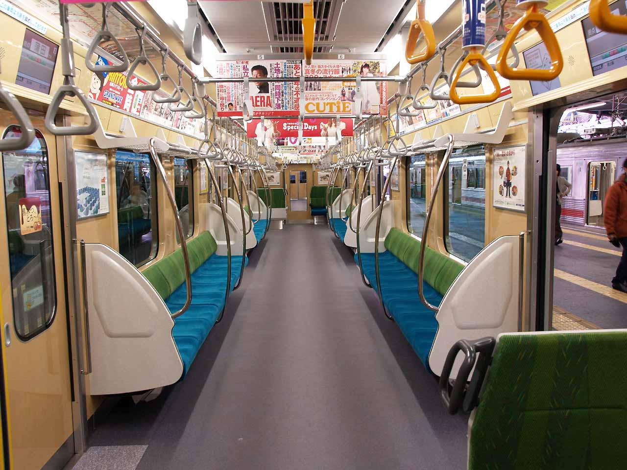 Tokyu New 7000 series cabin. 2+1 "Box seat" equipped in end of car No.2. Number: 7202